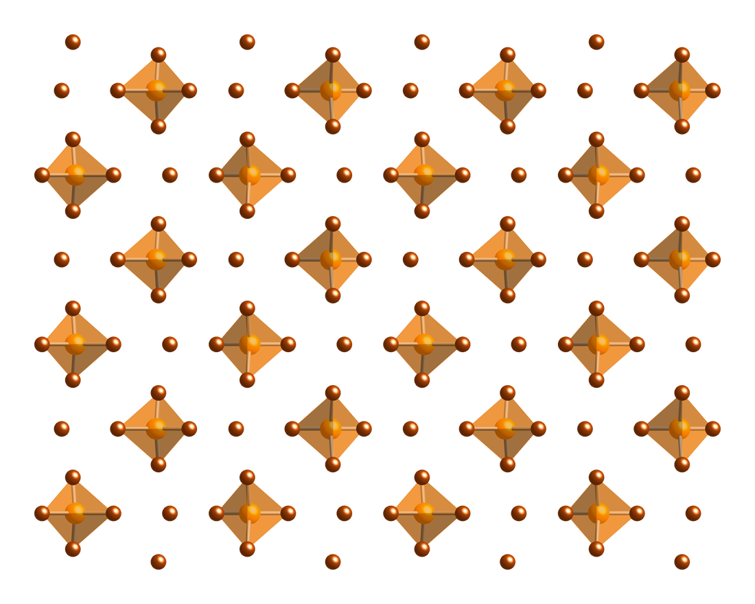 Ball-and-stick model of part of the crystal structure phosphorus pentabromide, PBr5, viewed along the [100] lattice vector. The compound is more descriptively formulated as [PBr4+][Br−]. X-ray diffraction data from W. Gabes and K. Olie (1970). "Refinement of the crystal structure of phosphorus pentabromide, PBr5". Acta. Cryst. B26 (4): 443-444. Image generated in CrystalMaker 8.0.